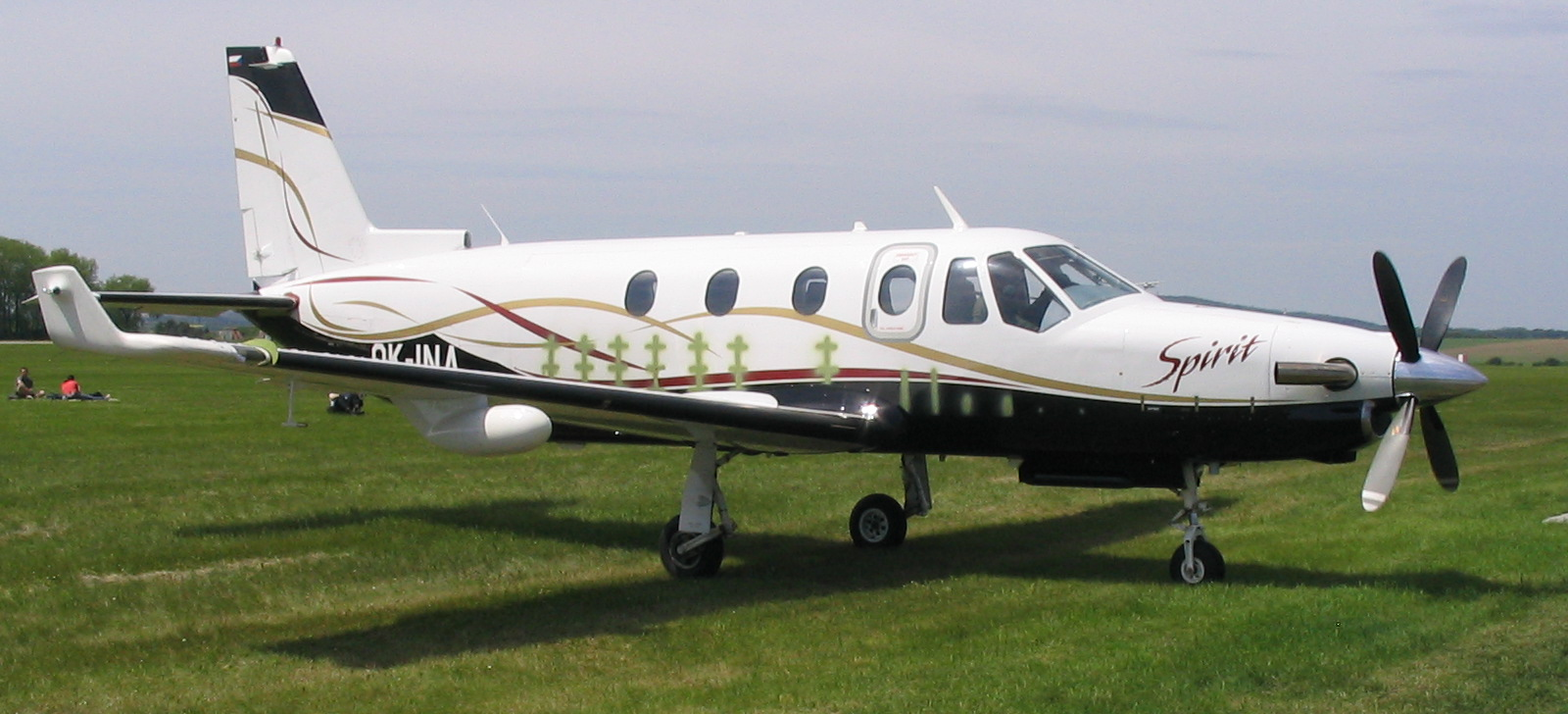 Ibis Aerospace Ae270 Spirit during air show in Chotusice, AFB Čáslav, Czech Republic (LKCV)